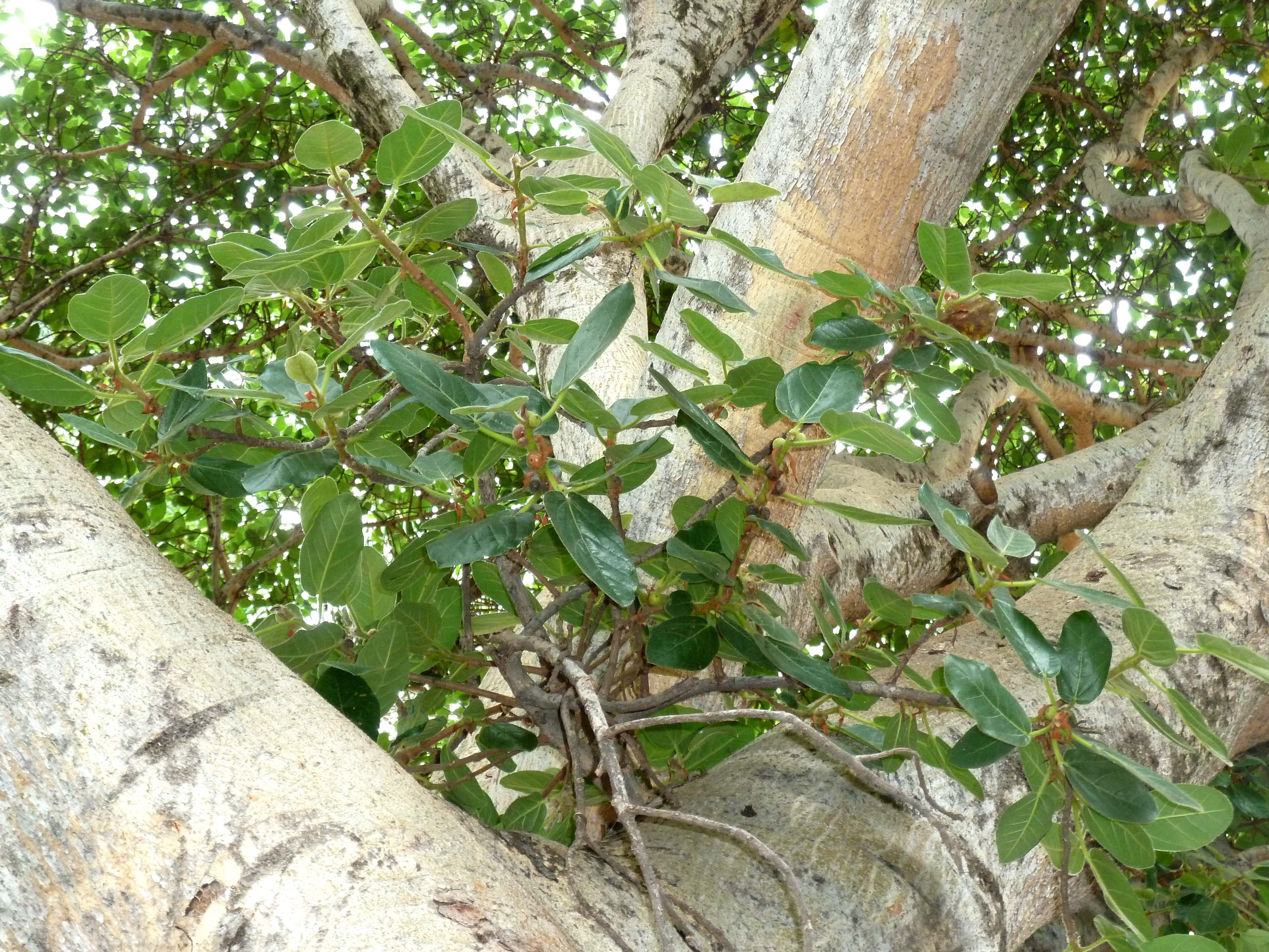 Sub-canopy foliage and fruit of a Mountain fig growing near the Manie van der Schijff Botanical Garden at the University of Pretoria, South Africa